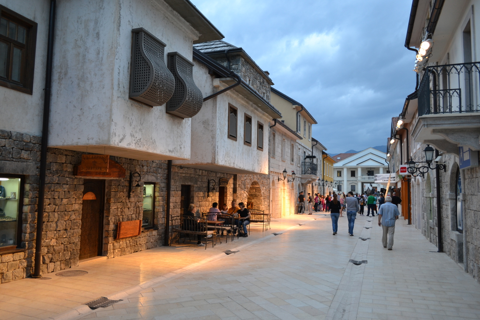 Complex Andrictown, main street